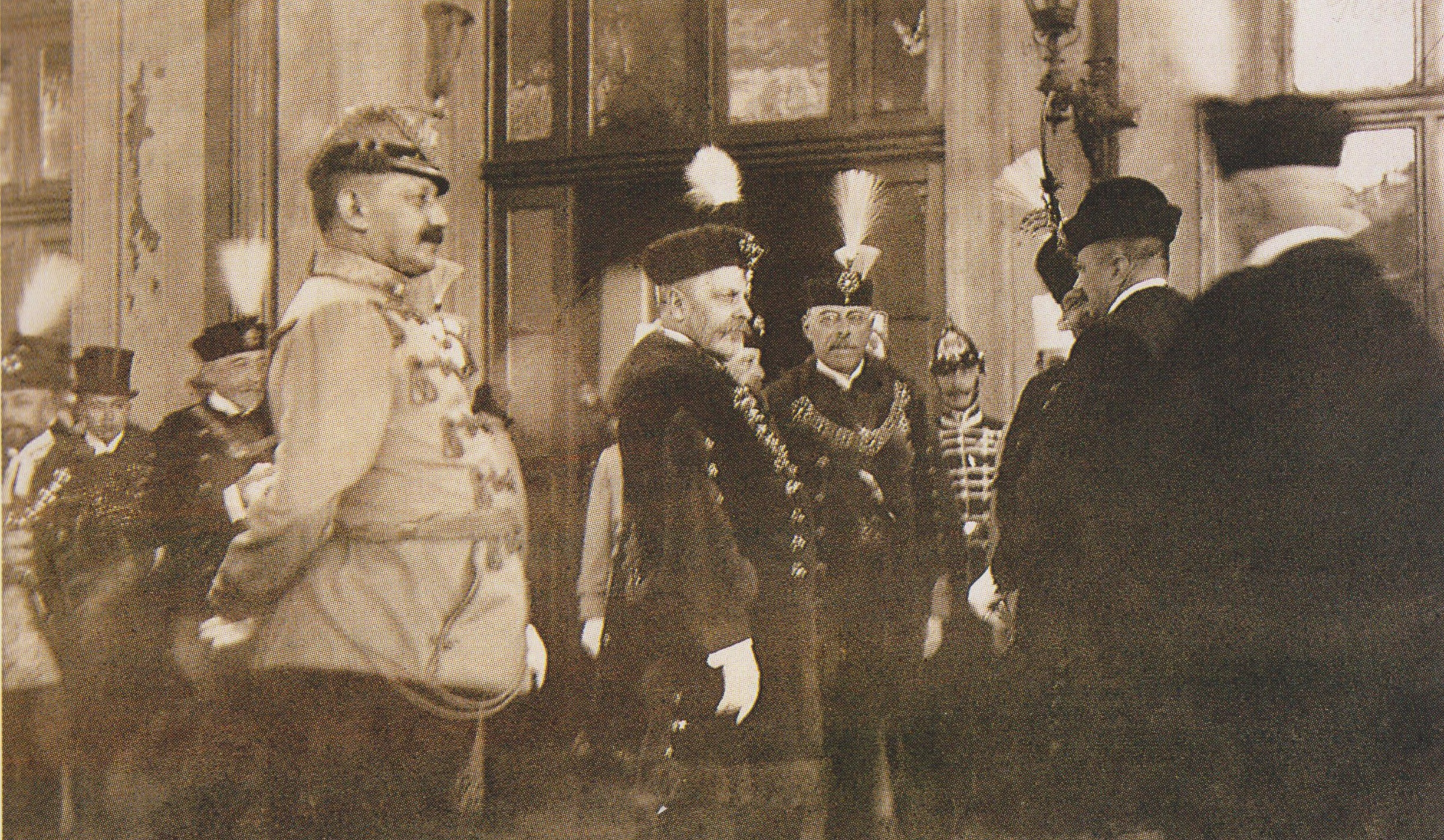 Members of the newly-installed Khuen-Héderváry Cabinet (first row, from left: Defence Minister Samu Hazai, Prime Minister Károly Khuen-Héderváry and Finance Minister László Lukács) are waiting for Emperor-King Francis Joseph I, who arrived to Hungary to open the inaugural session of the new National Assembly at Budapest-Nyugati Railway Terminal in July 1910.